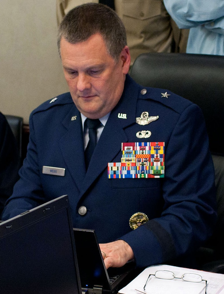 Marshall B. Webb in the Situation Room